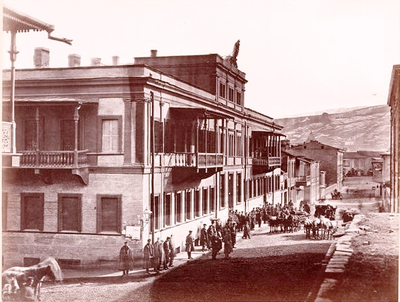 Postal Administration of Tbilisi.